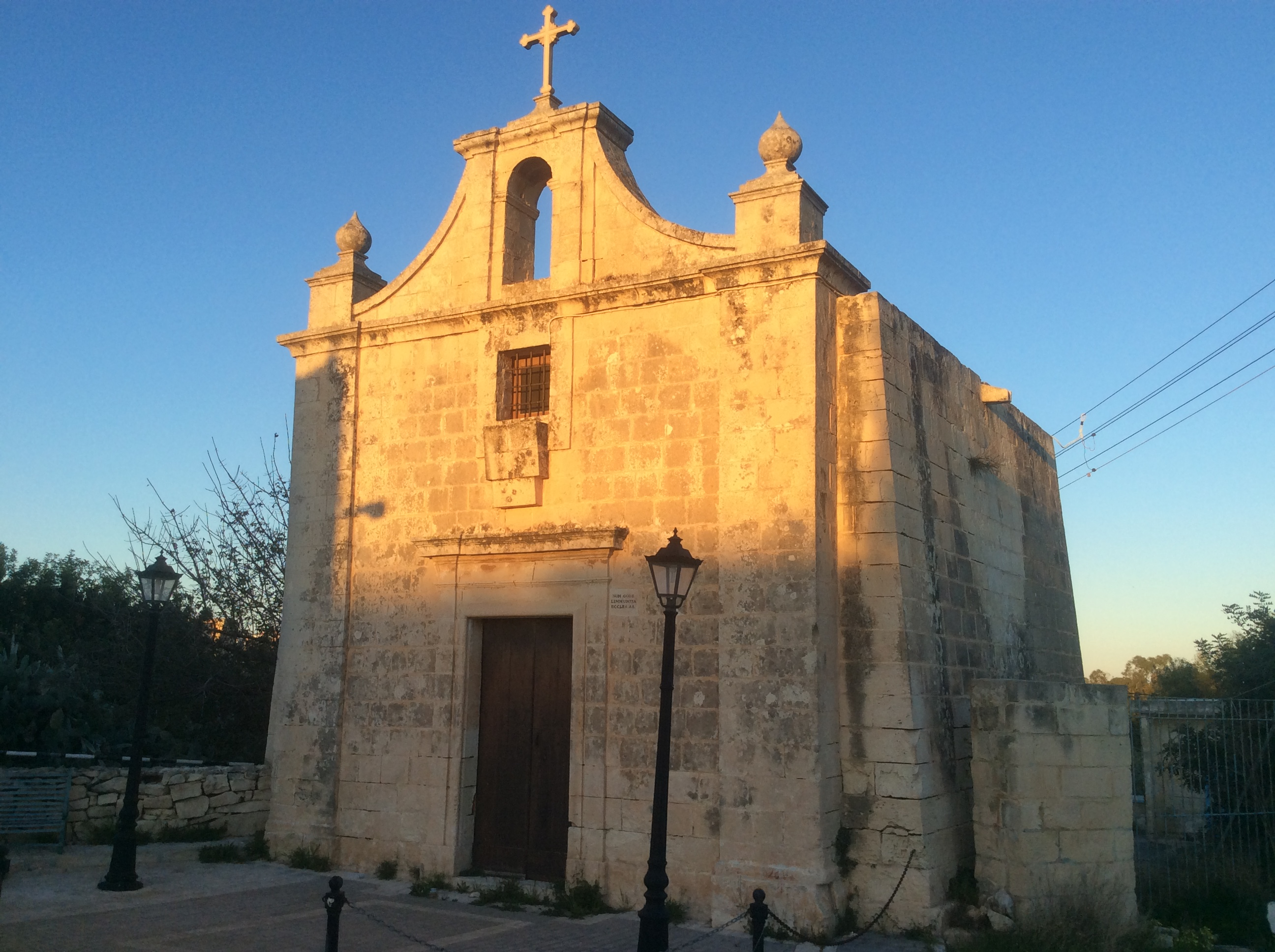 St Philip and St James Chapel, San Gwann, Malta